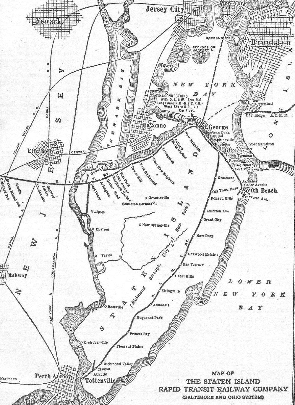 Staten Island Rapid Transit (B&O) system map in 1952, showing freight connections